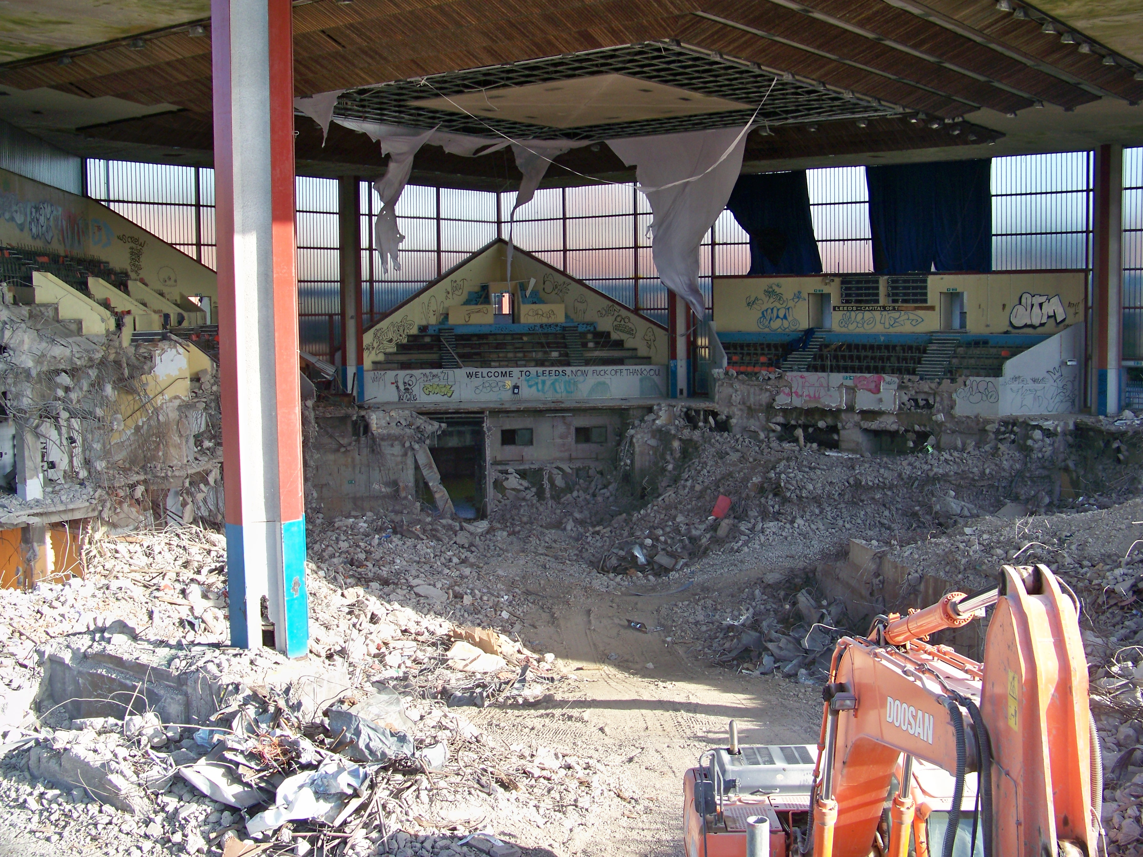 The interior of the Leeds International Pool during demolition. Taken from the A58(M) footbridge on the afternoon of Saturday the 3rd of October 2009.